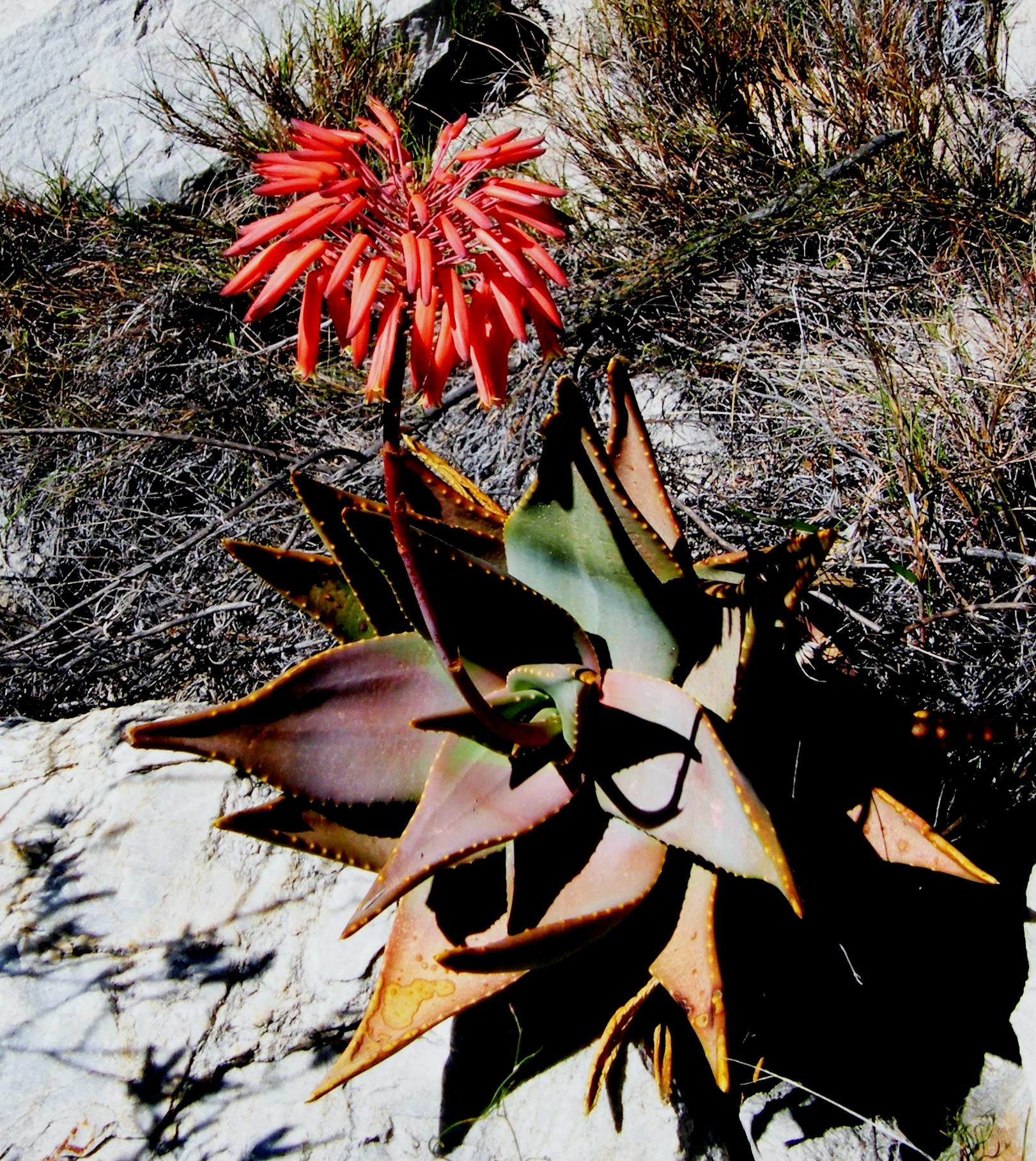 Kraans aloe